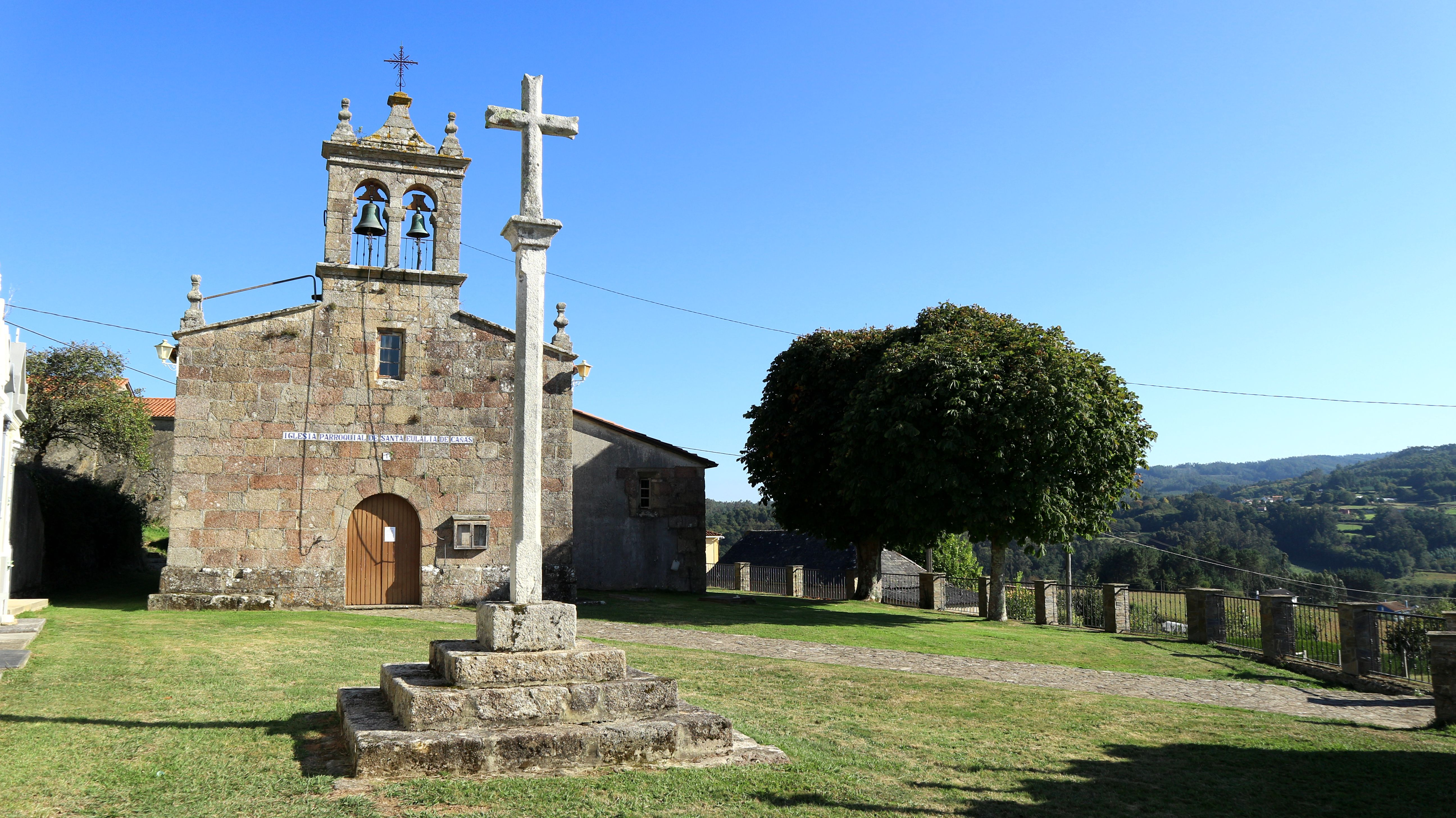 Igrexa de Santaia de Cañás, no Bacelo, Cañás (Carral, A Coruña).